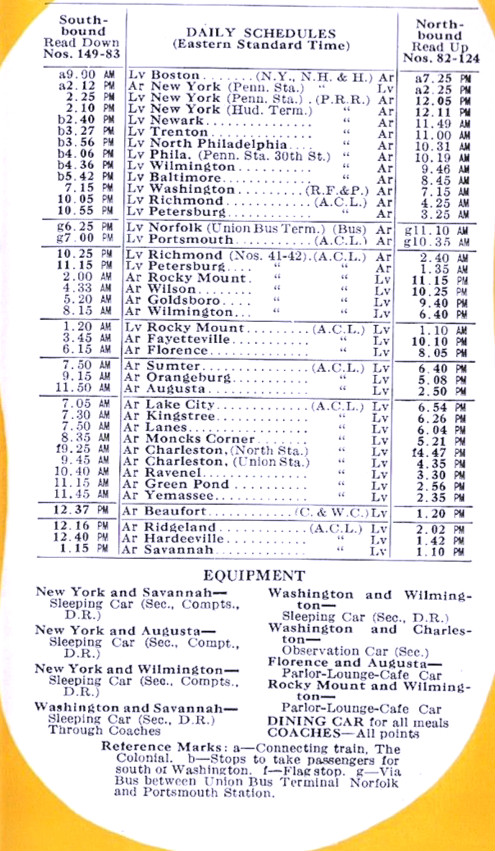 Schedule for the ACL train the Palmetto Limited.